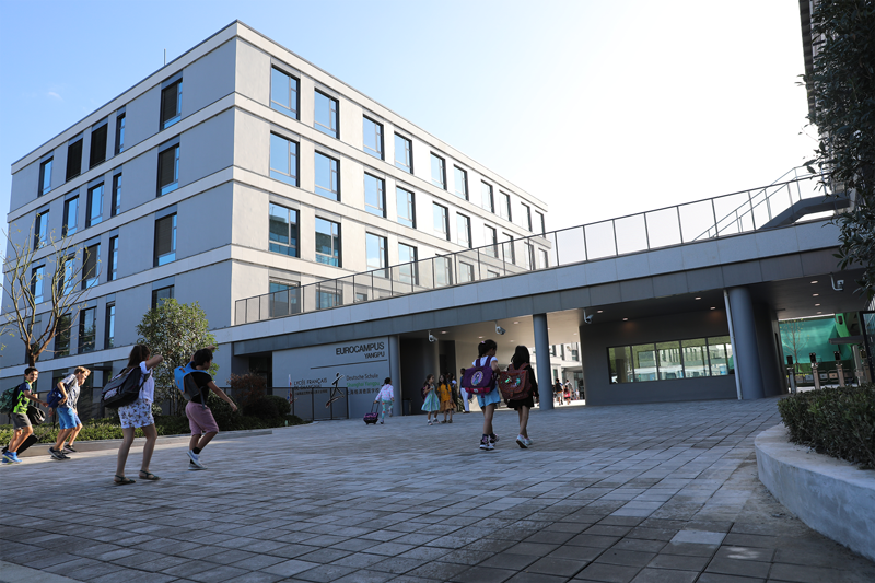 Exterior façade of the Yangpu Campus - Lycée Français de Shanghai/German School Shanghai